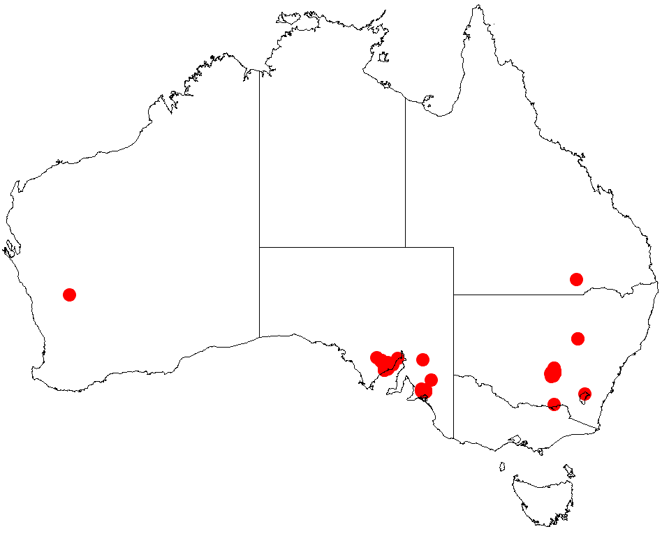 Acacia rhigiophylla occurrence data from Australasian Virtual Herbarium downloaded from on December 8 2018